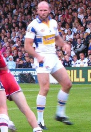 Keith Senior